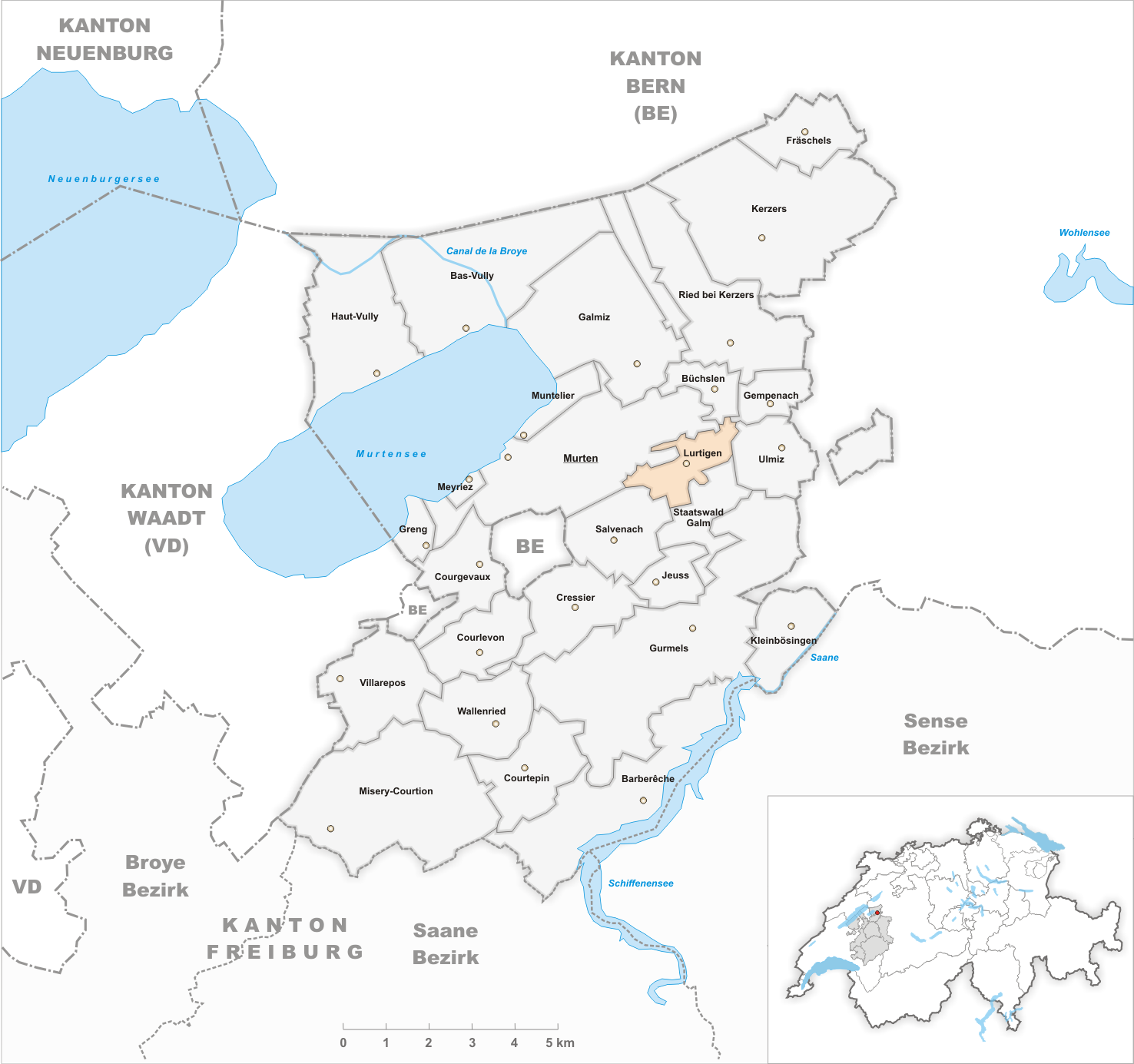 Municipality Lurtigen